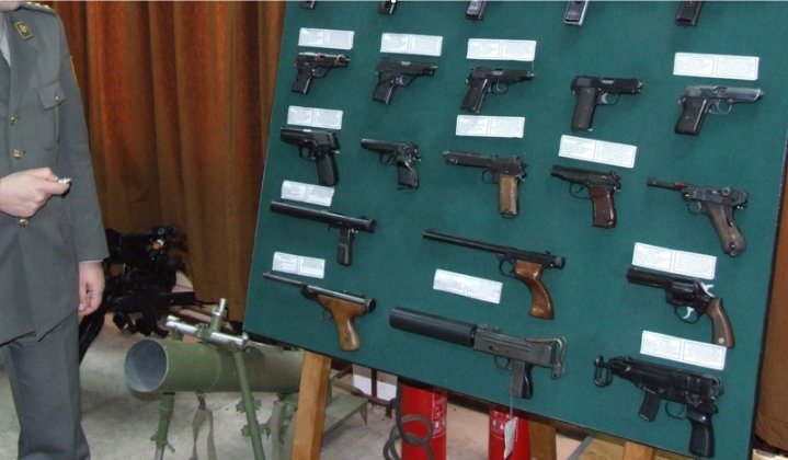 Armaments display